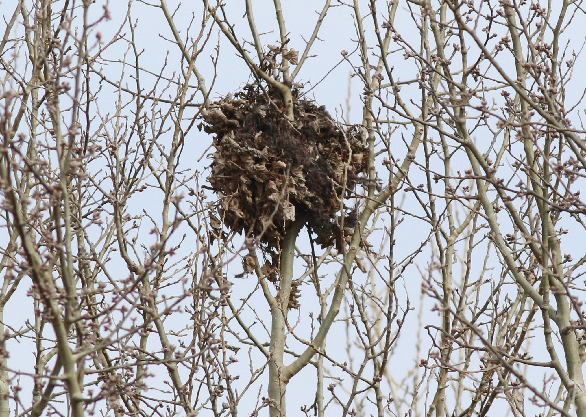 Red squirrel nest, Slovakia, SPA Kráľová